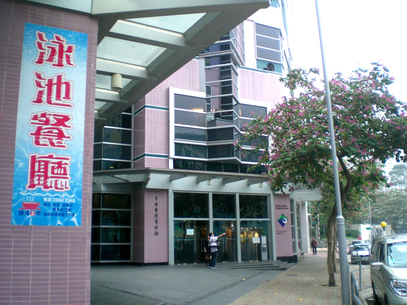 鯉景道香港電影資料館及港島東體育館泳池餐廳